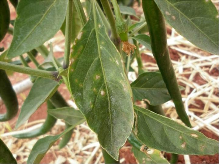 Host symptoms of Cercospora apii on Capsicum annuum.